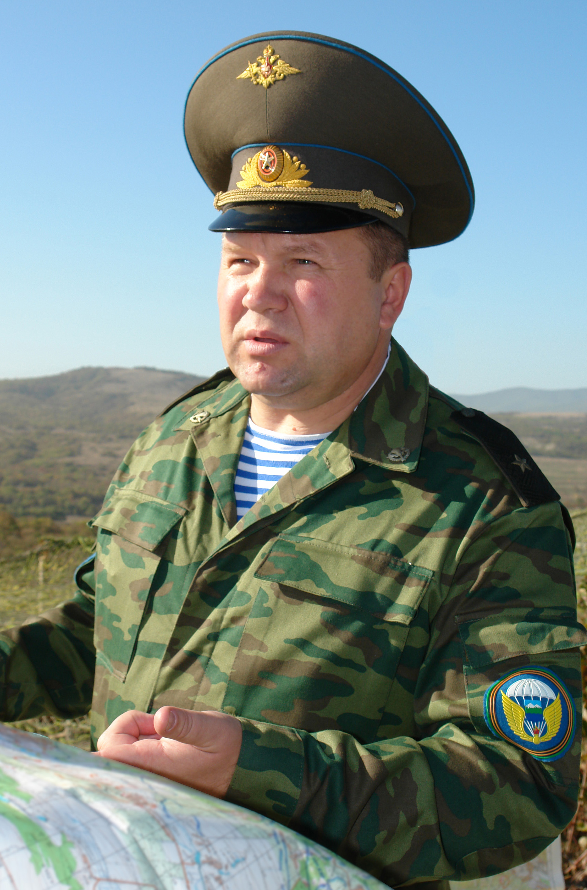 Maj. Gen. Victor Astapov, 49th Army Commander.